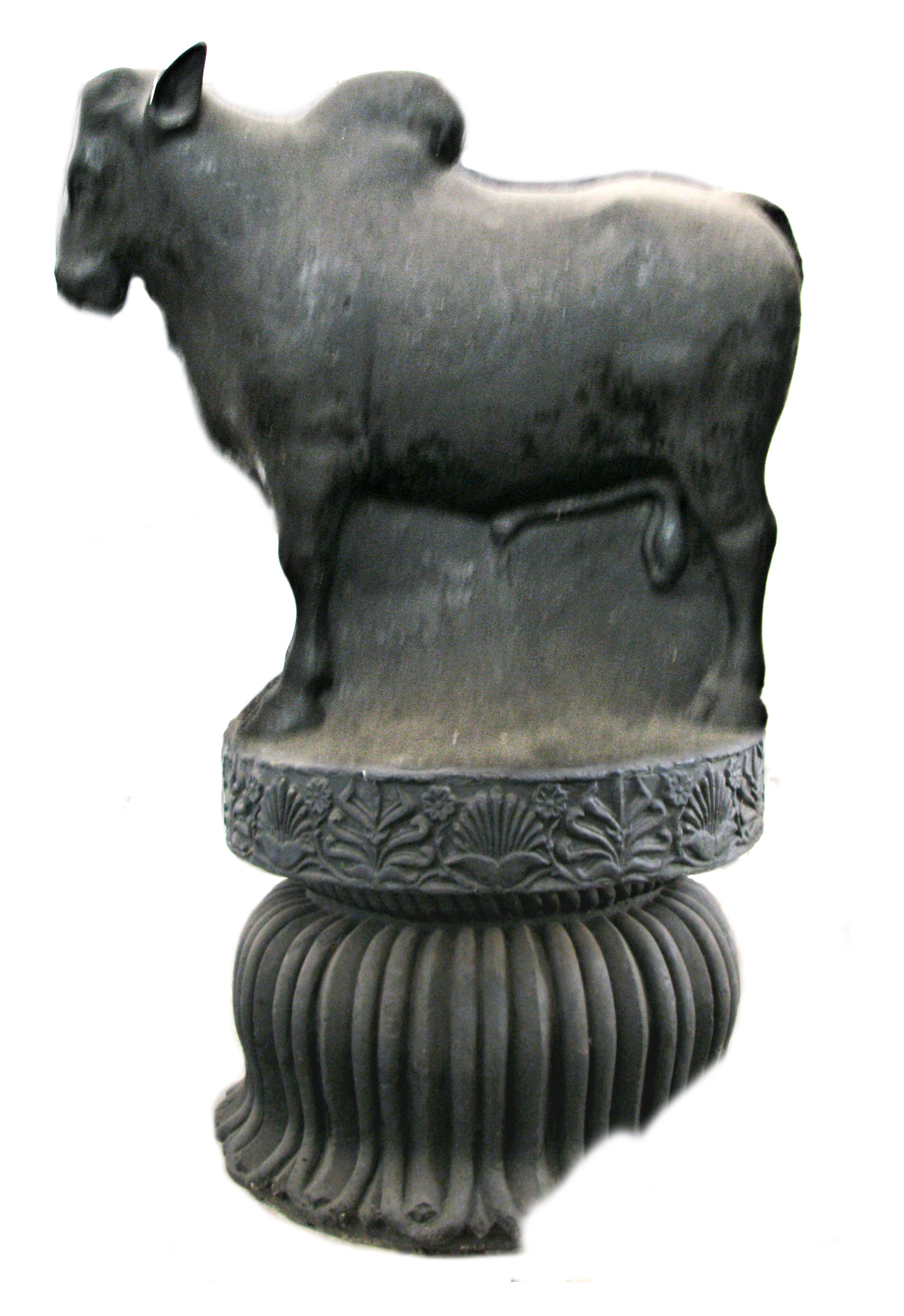 Bull capital Rampurva, Calcutta Indian Museum (John Boardman, "The Diffusion of Classical Art in Antiquity", Princeton University Press, 1993, p.130: "The Indian king's grandson, Asoka, was a convert to Buddhism. His editcs appear carved on rocks and a number of free-standing pillars which are found right accross India. These owe something to the pervasive influence of Achaemenid architecture and sculpture, with no little Greek architectural ornament and sculptural style as well. Notice the florals on the bull capital from Rampurva, and the style of the horse on the Sarnath capital, now the emblem of the Republic of India." The original is in the Rashtrapati Bhavan presidential compound, New Delhi)